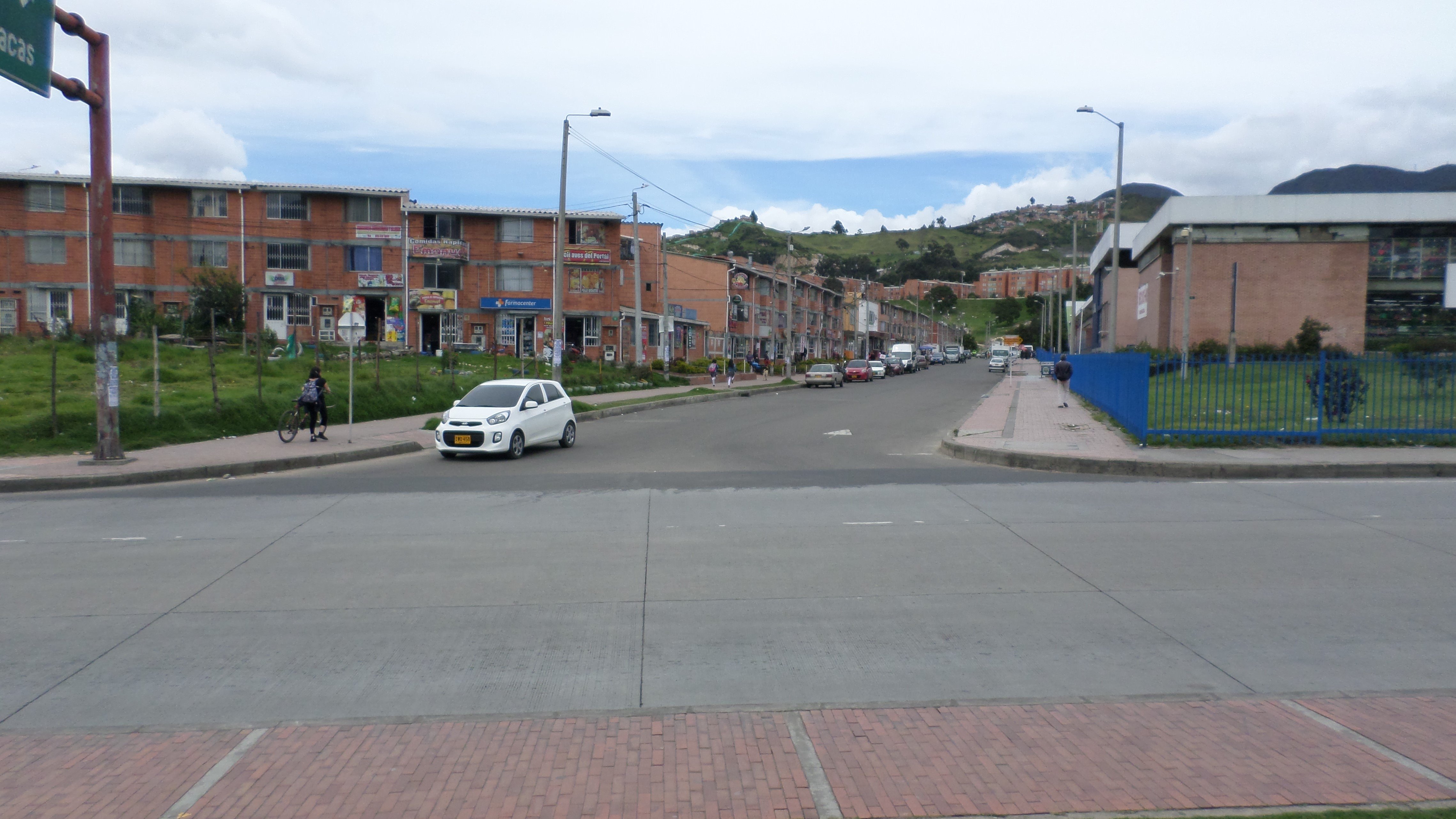 hhhhjjjj